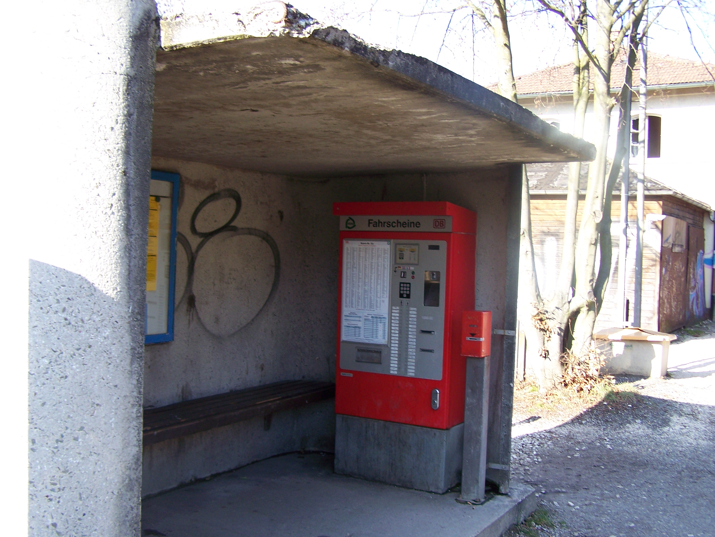 Shelter of train station Schnaittach Markt, Germany.